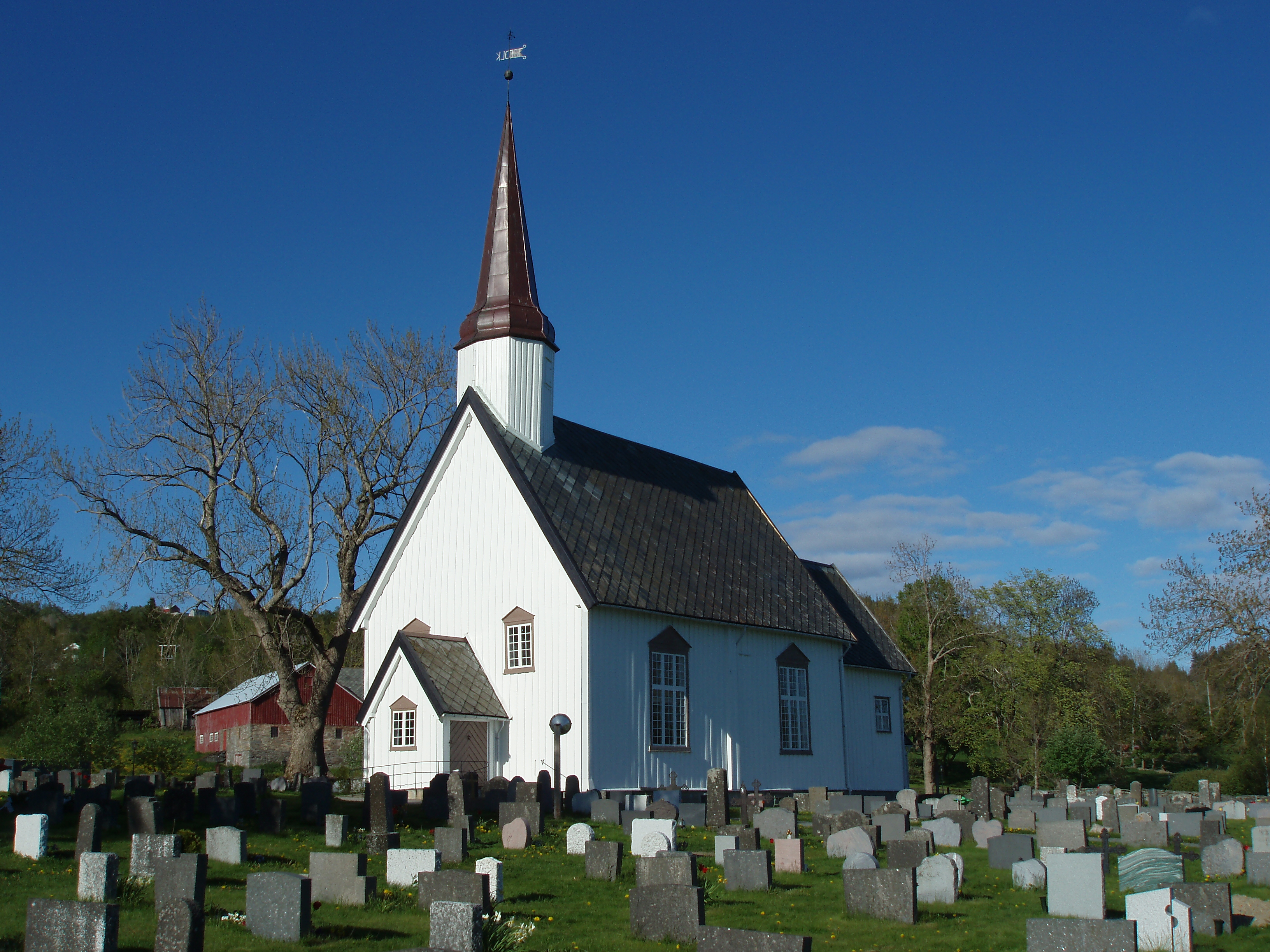 Leksvik church in Leksvik municipality in Nord-Trøndelag country in Norway.